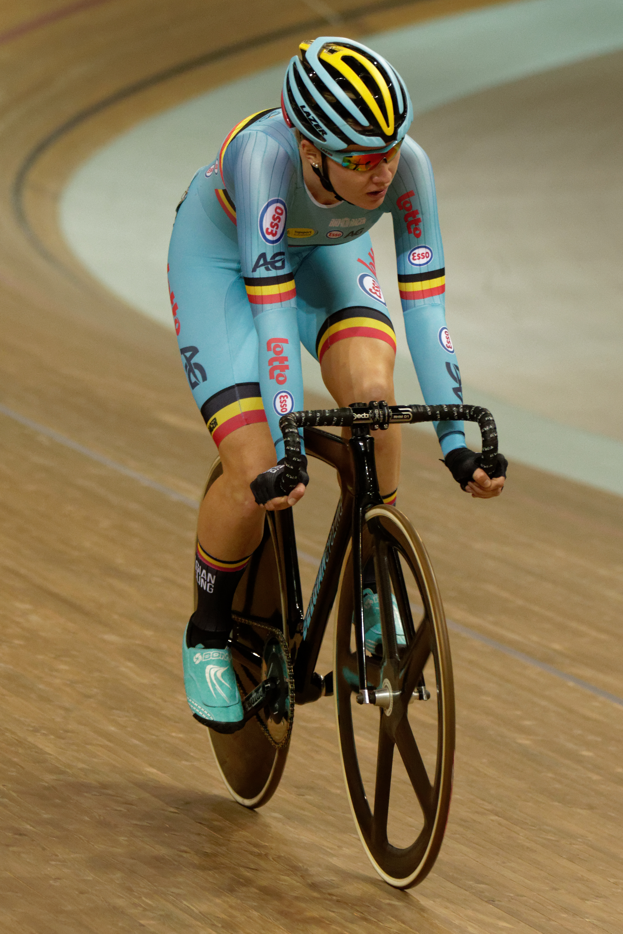 2016 UEC European Track Championships - Jolien D'hoore from Belgium